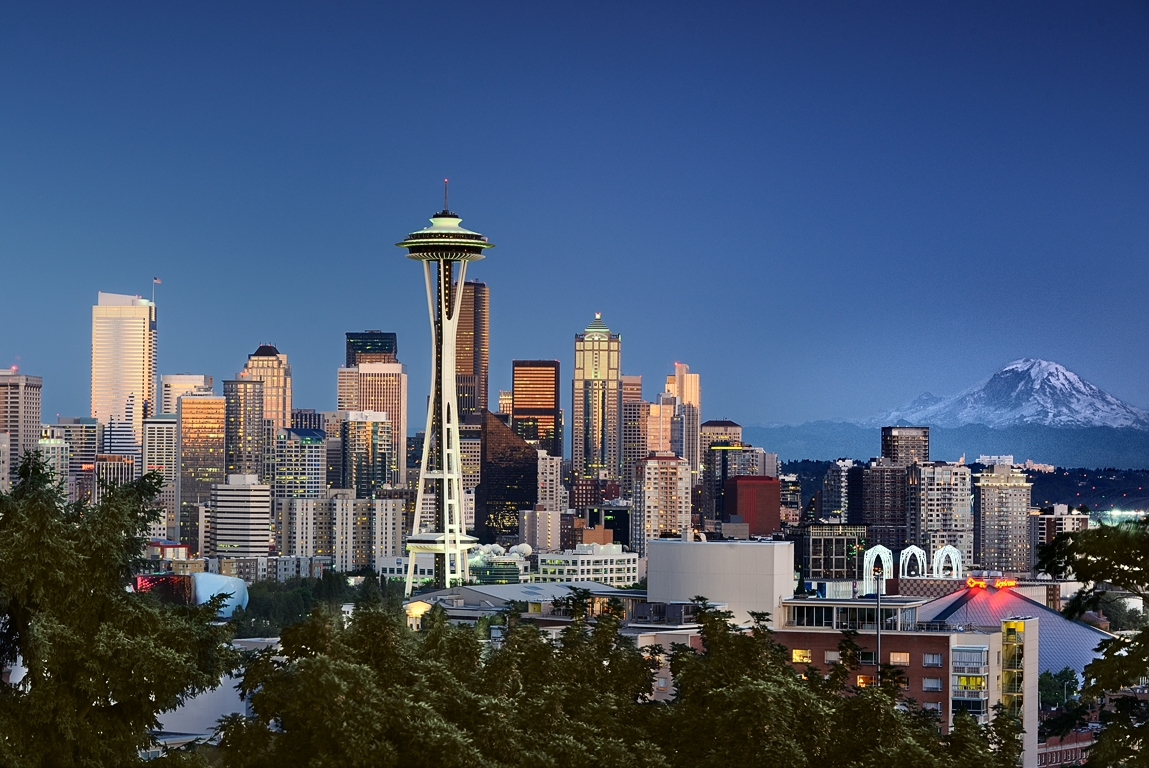 Seattle -- a classic shot from Kerry park